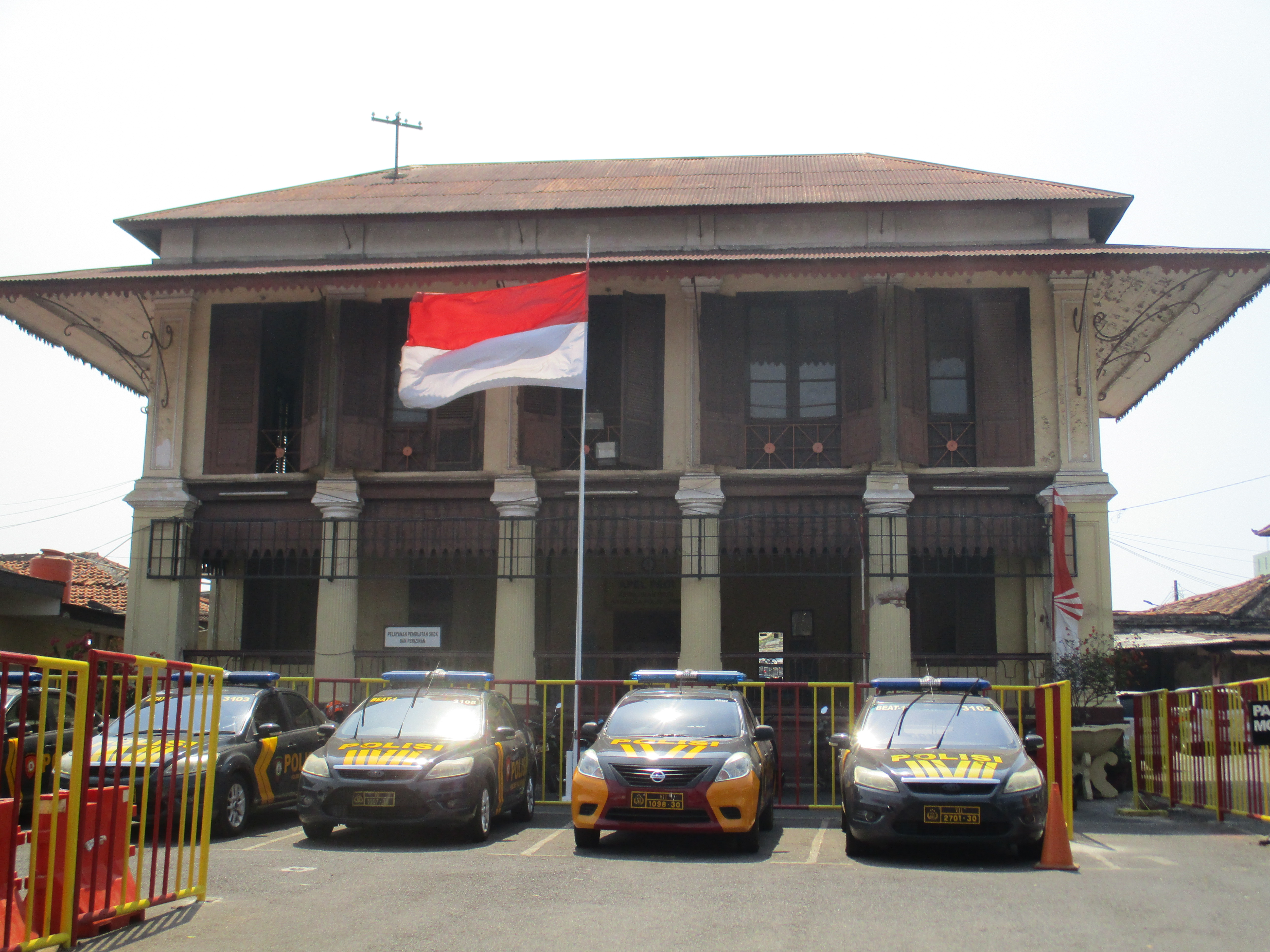 Polsek Palmerah, former building of Landhuis Palmerah, Jakarta.